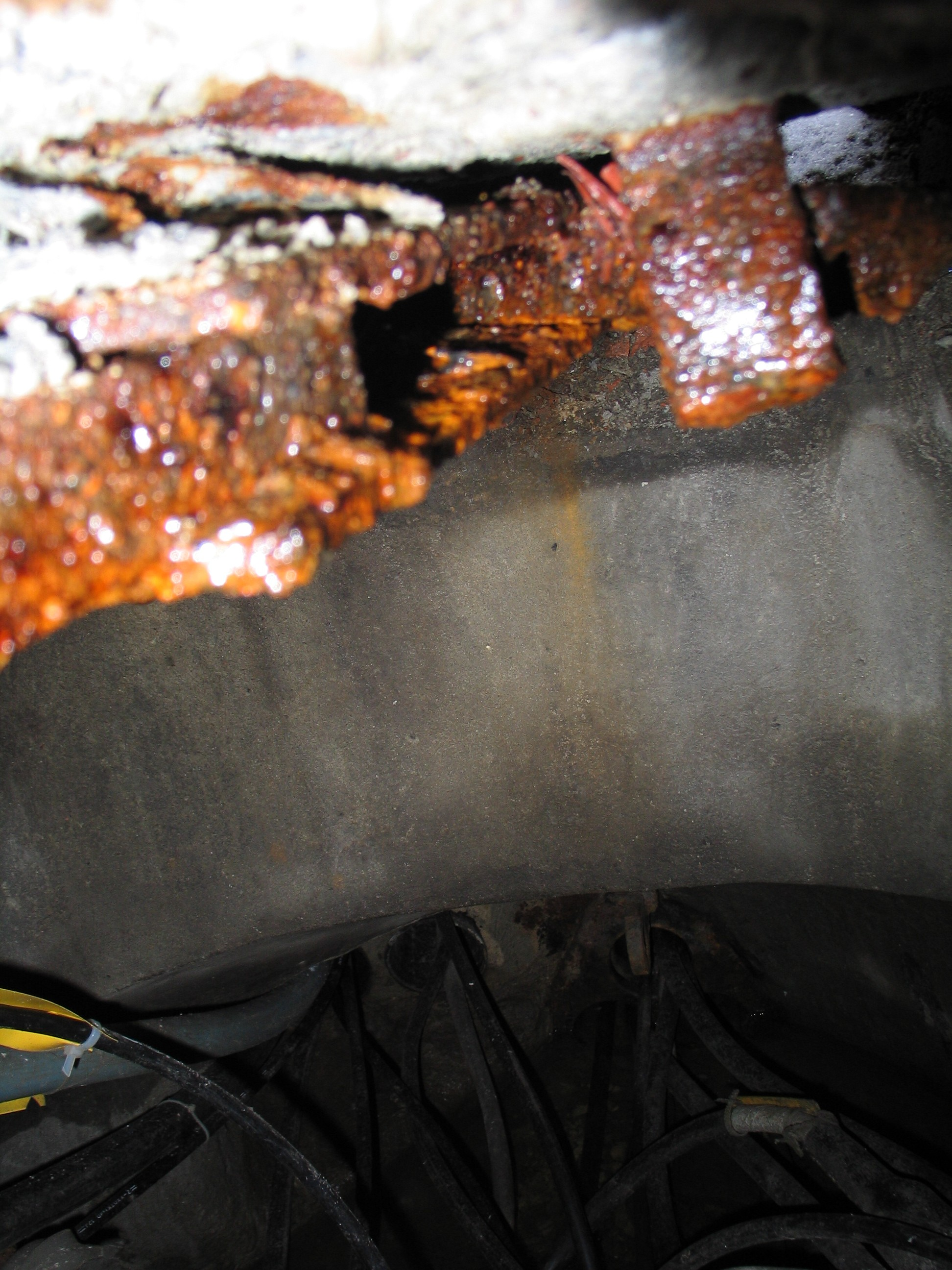 telecommunication access chamber, Kościuszki Street, Włocławek, Poland